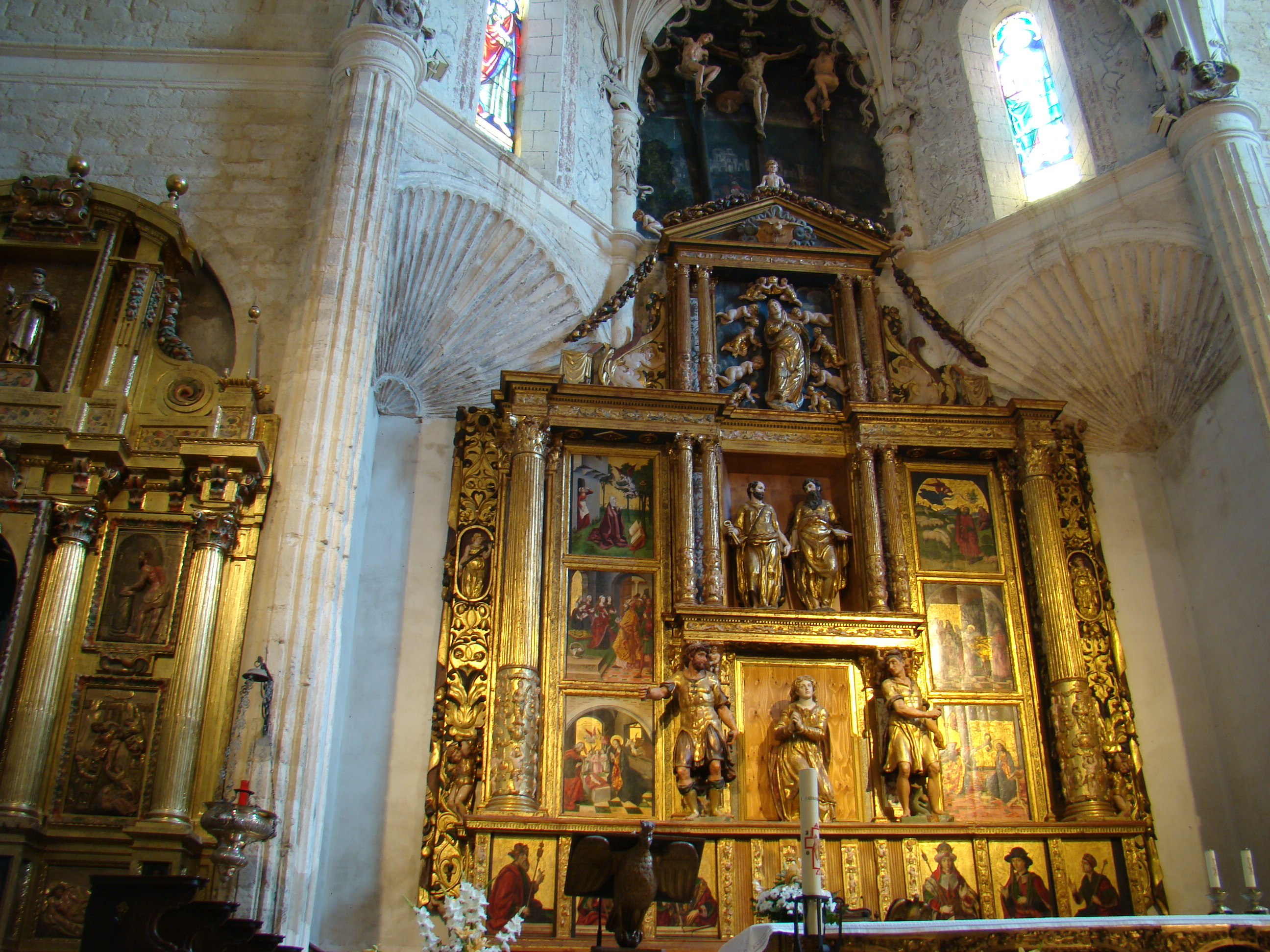 Main altarpiece, work by Pedro Berruguet, Inocencio Berruguete and Esteban Jordán. Calvary by an apprentice of Berruguete. Six boards: The announcement of the Angel to Saint Anne, The announcement of the Angel to Saint Joachim, Nativity of Our Lady, Our Lady suitors, Annunciation, Nativity of Christ.